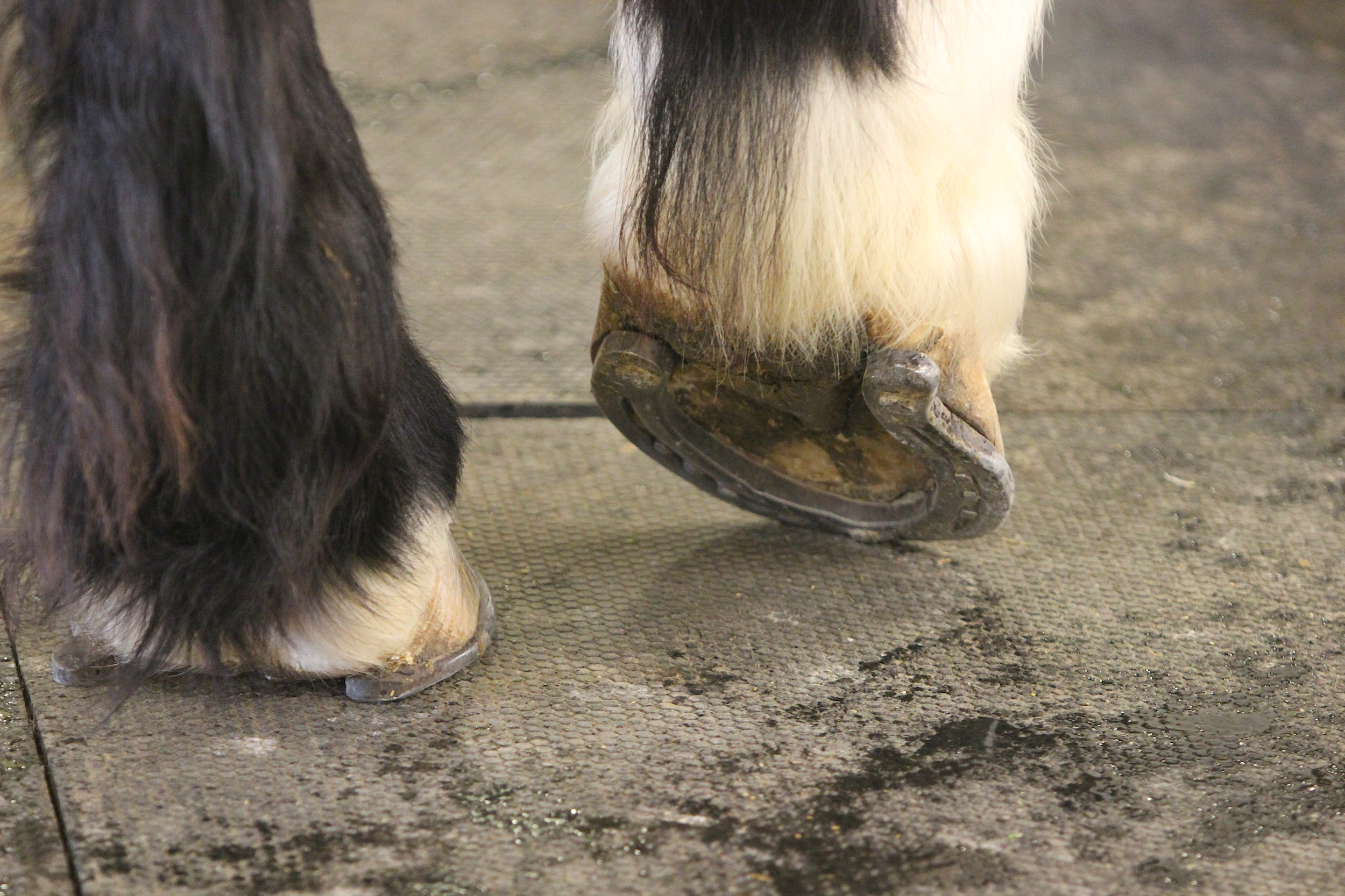 Shire feet at the Kentucky Horse Park